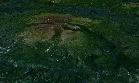 Southern flank of the Level Mountain Range.